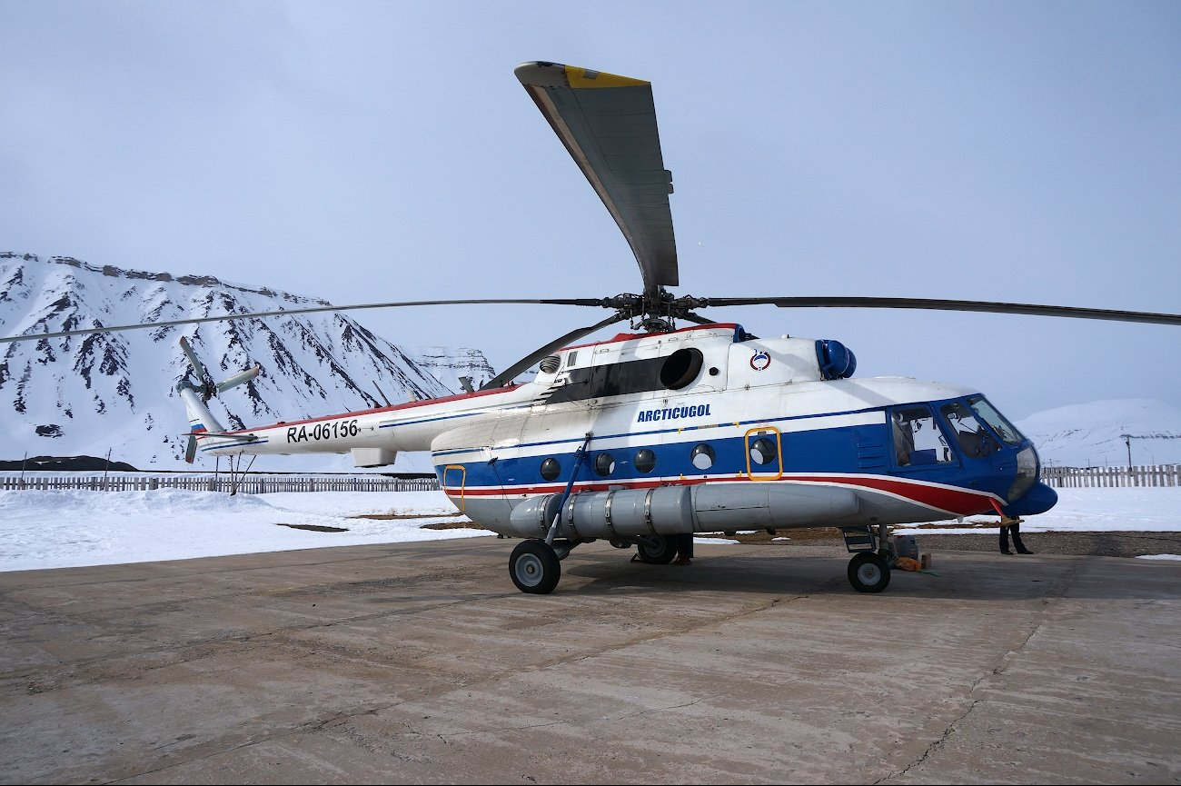 Spark+ Mil Mi-8MT RA-06156